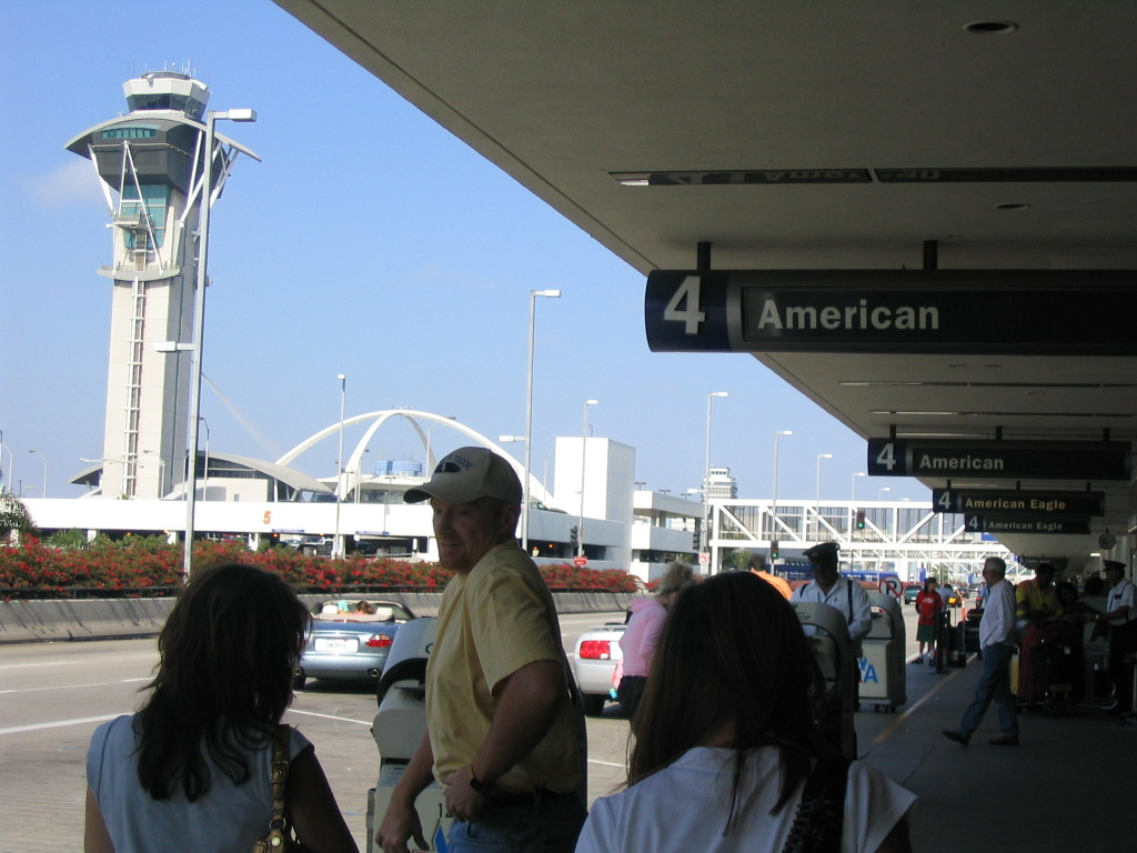 The control tower and Theme Building at Los Angeles International Airport, as viewed from Terminal 4.